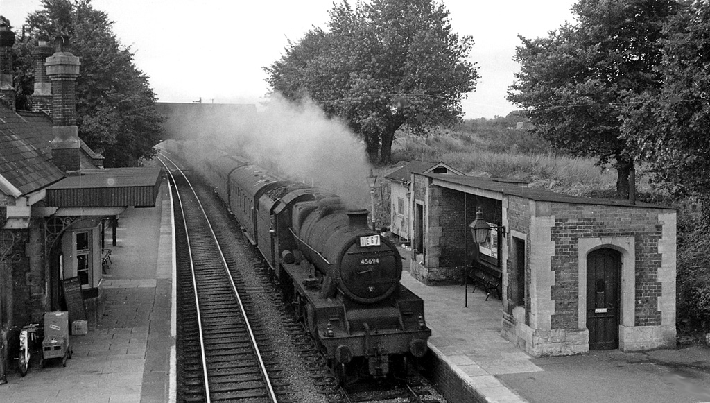 Berkeley Road Station, with Up train. View southward, towards Bristol; ex-Midland Derby - Birmingham - Bristol main line, junction of branch to Sharpness and Lydney - see SO7100 : Berkeley Road Station. The Up express (probably the 08.50 Paignton - Leeds) was headed by LMS 'Jubilee' 6P 4-6-0 No. 45694 'Bellerophon'.